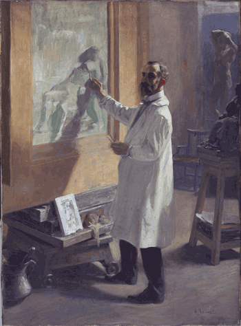 Oil on Canvas painting of Welsh sculptor William Guscombe John. Painted in 1902 by George Roilos (1867-1928)